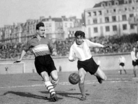 Racing Club de Avellaneda (vertical stripes), whose name was inspired by Racing Club de France, playing against him in Parc des Princes, in 1950. The Argentine player is Norberto "Tucho" Méndez.